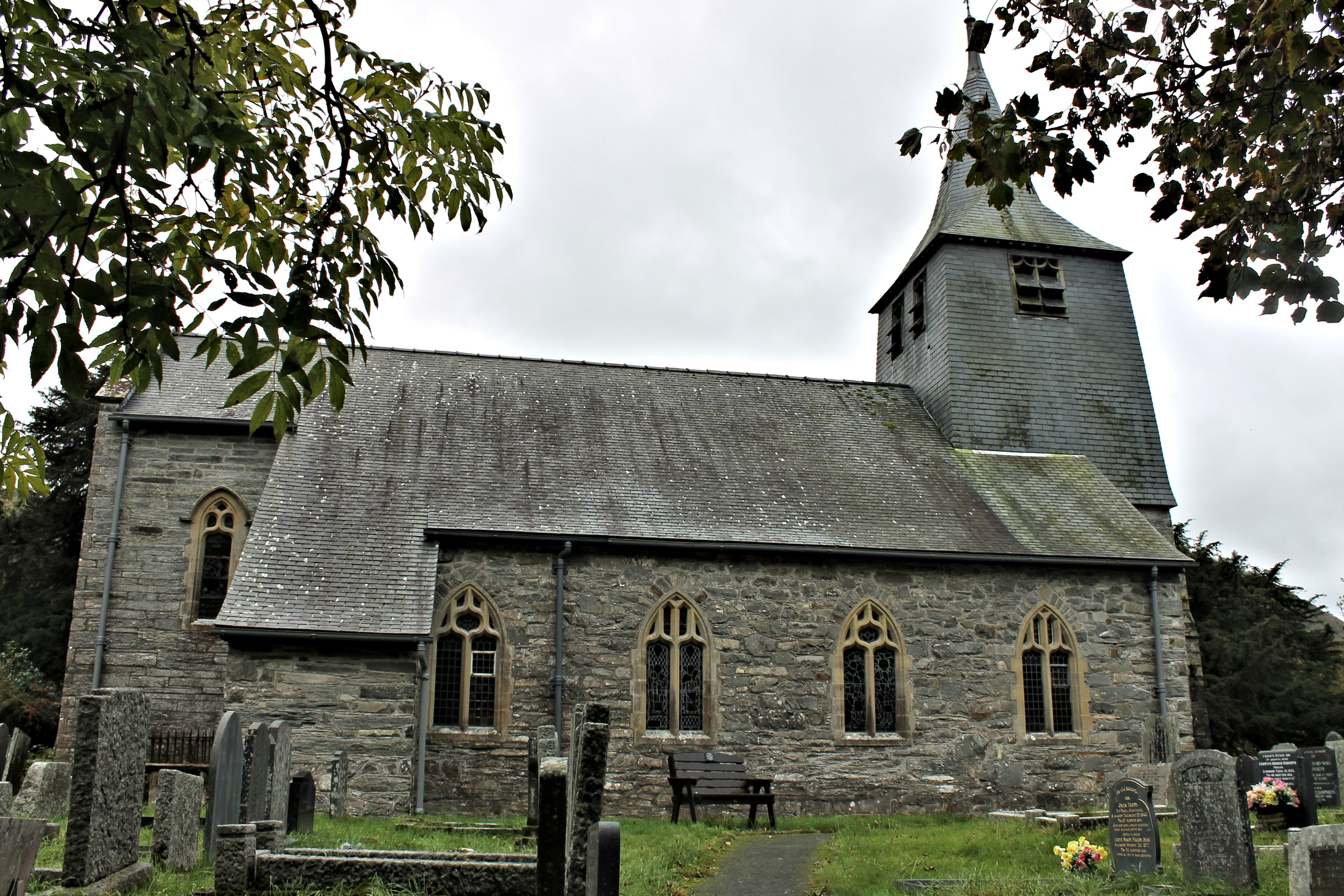 Saint Twrog's Church is in the village of Maentwrog in the Welsh county of Gwynedd, lying in the Vale of Ffestiniog, within the Snowdonia National Park.